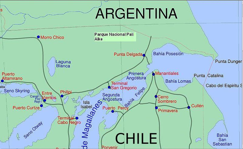 Pali Aike National Park (Magallanes) cropped from Surf.gif